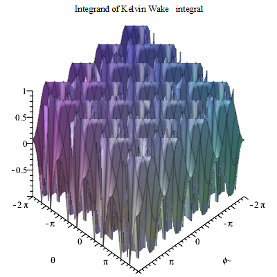 Integrand of Kelvin Wake Integral